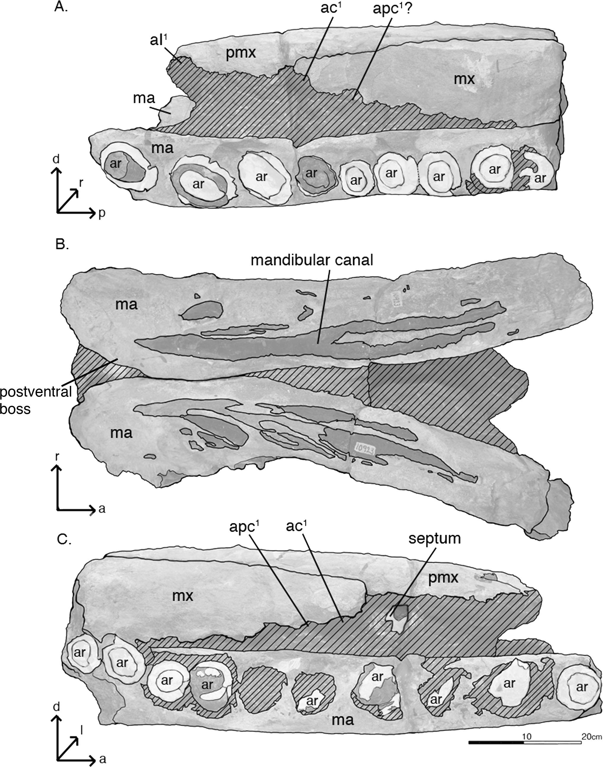 Illustrated with a low opacity mask and interpretive line art. From top: A, left lateral, B, ventral, and C, right lateral views Abbreviations: d indicates dorsal direction, l indicates left lateral, a indicates anterior, p indicates posterior, r indicates right lateral. aI1 indicates first incisor alveoli, ac1 indicates first canine alveoli, apc1 indicates first post-canine alveoli, dr indicates alveolus with dental root. The mandibles (ma), maxillae (mx) and premaxillae (pmx) are all labeled accordingly. Tooth fragments in alveoli are emphasized with a nearly opaque white layer.